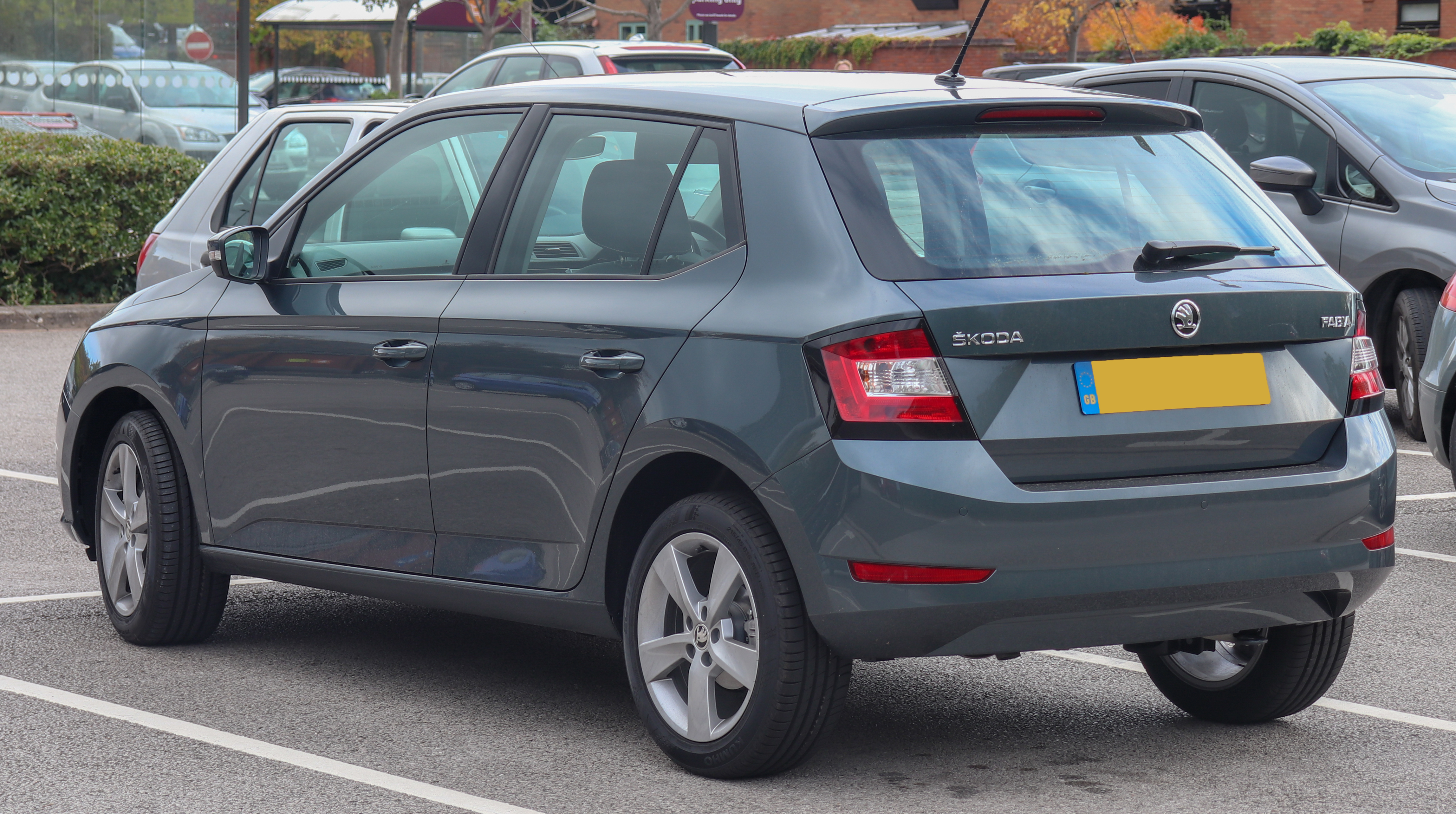 2018 Skoda Fabia facelift 1.0 Rear Taken in Warwick